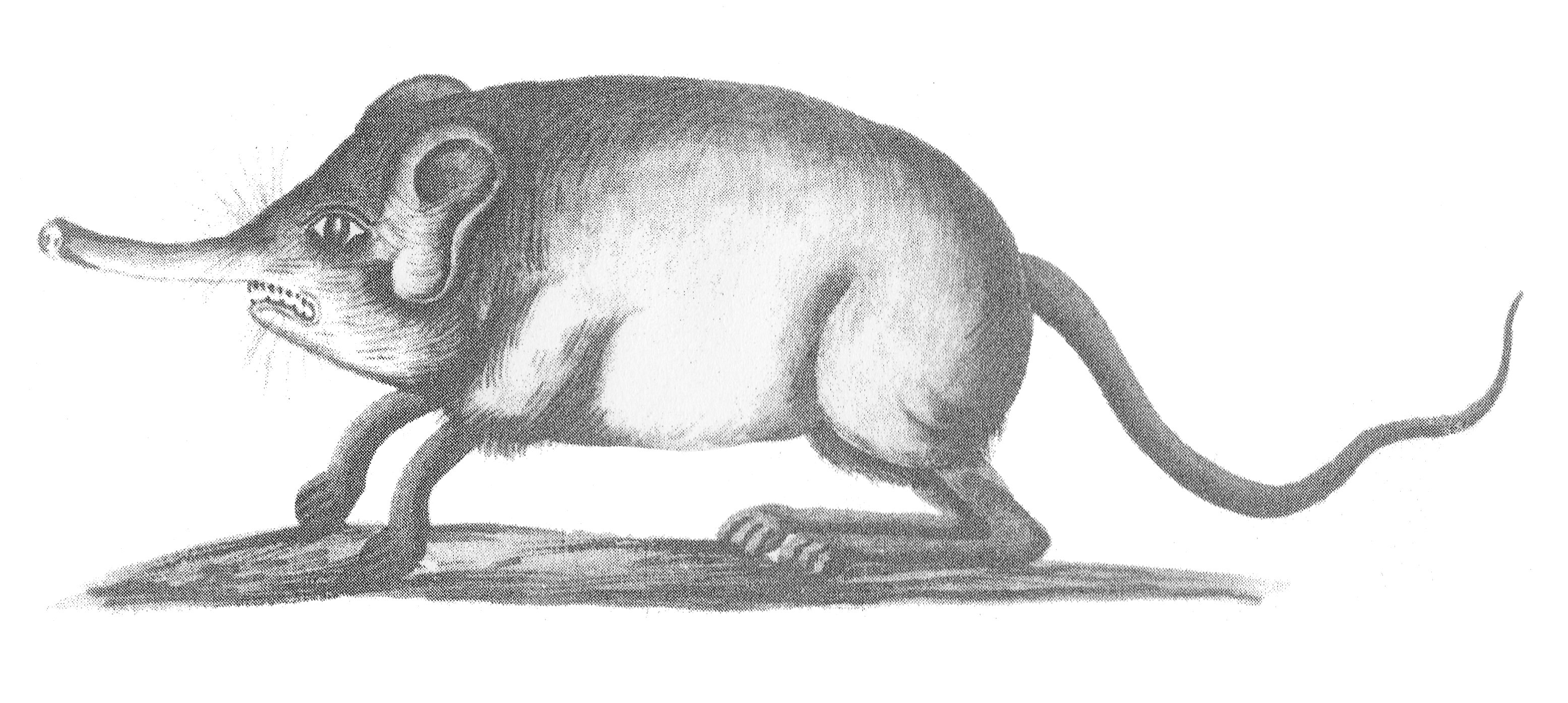 Drawing of an macroscelid from Claudius around 1685 or 1686, reprinted in L. C. Rookmaker: The Zoological Exploration of Southern Africa. Rotterdam, 1989, pp. 1–368 (p. 25)